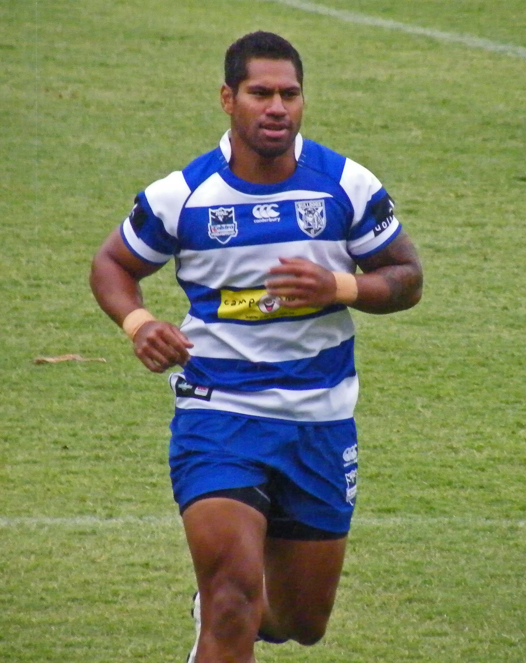 Mickey Paea